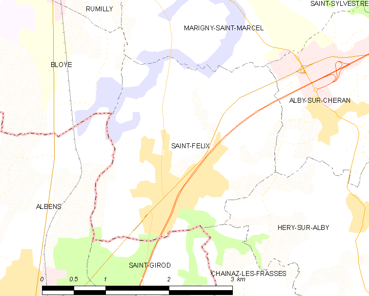 Map of French municipality Saint-Félix